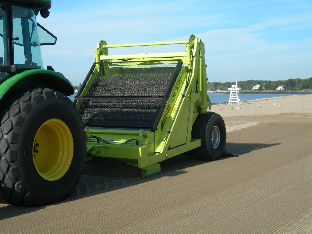 Barber Surf Rake Beach Cleaner cleaning the beach and leaving clean, groomed sand behind.